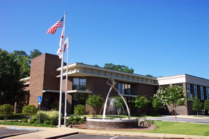 Tuscaloosa Public Library, 1801 Jack Warner Parkway, Tuscaloosa, Alabama: Main Library